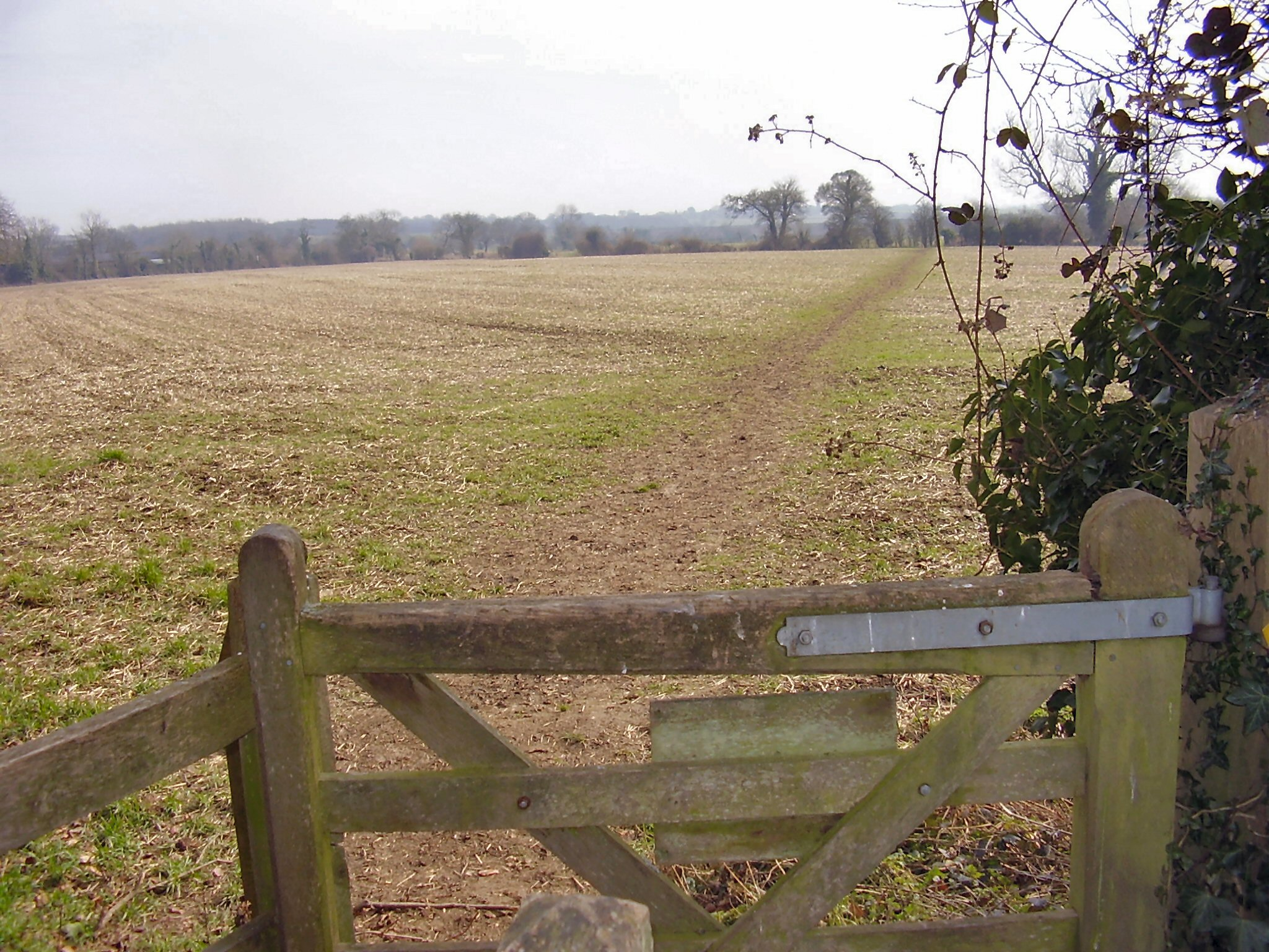 C.Hoyle